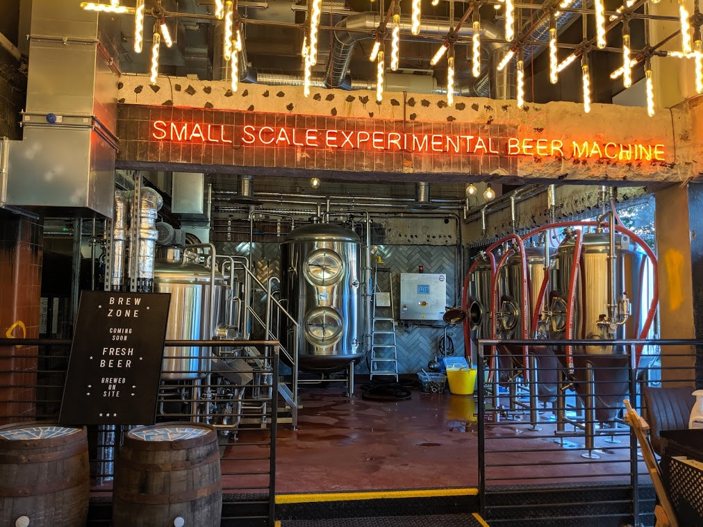 The Small Scale Experimental Beer Machine (microbrewery) at Brewdog Outpost Manchester